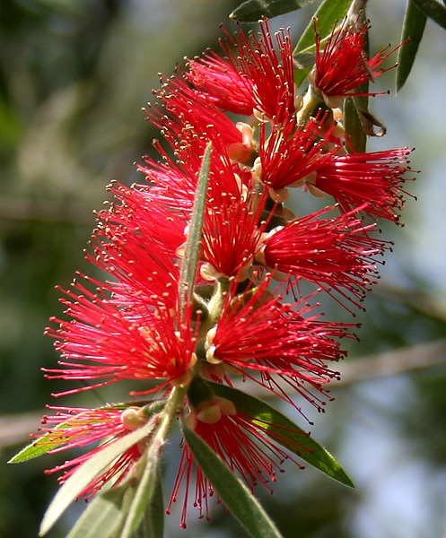 Weeping bottlebrush Callistemon viminalis in Hyderabad , India.